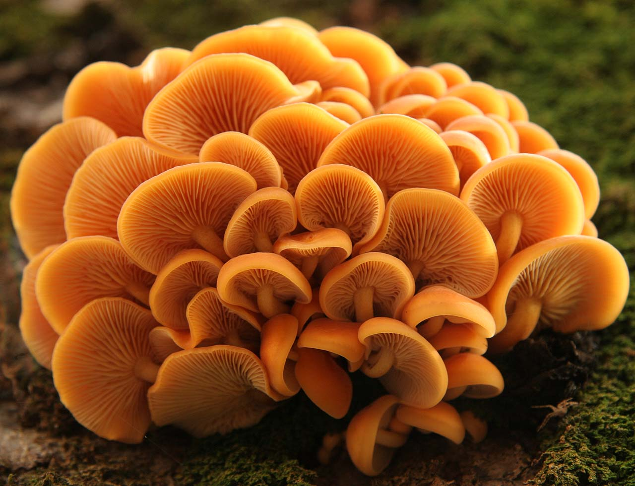 Flammulina velutipes on Celtis australe tree, Tinjan, Croatia photo: Petra Korlevic